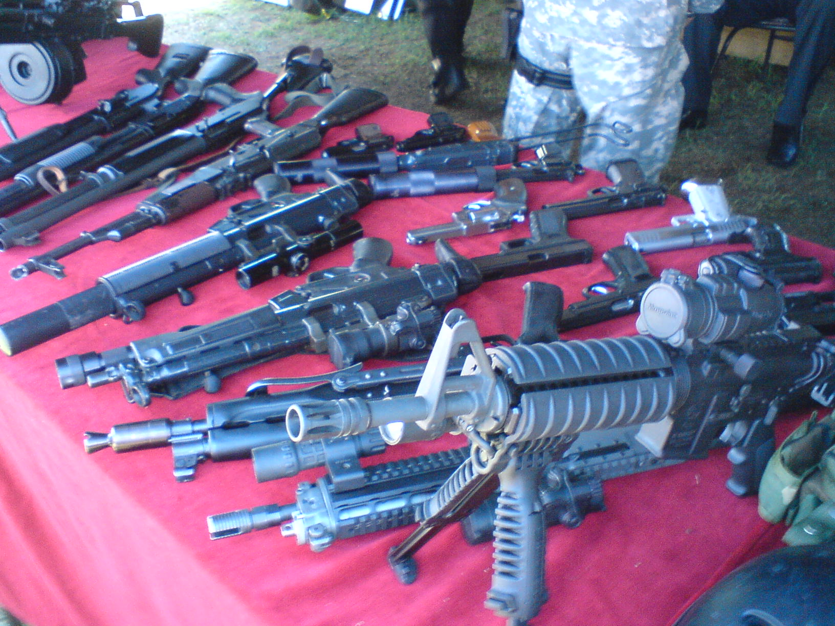 SAJ weapons